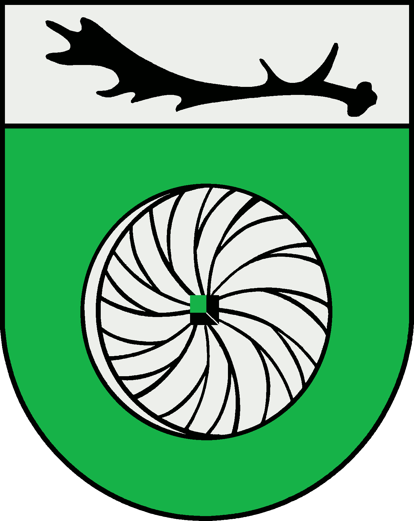 Coat of arms of the municipality Fitzbek in Schleswig-Holstein, Germany.